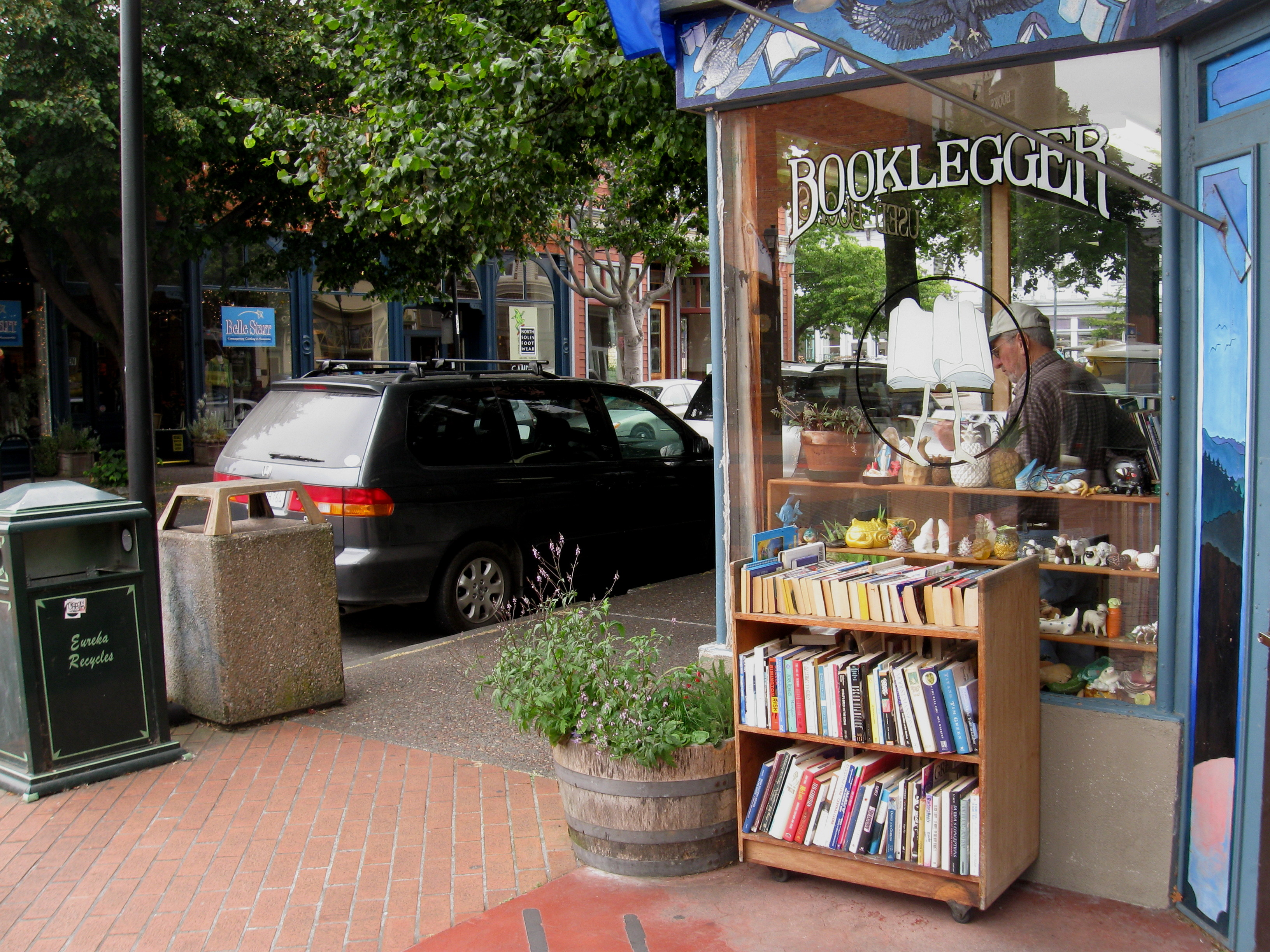 Used book shop, 402 2nd Street, Eureka, California